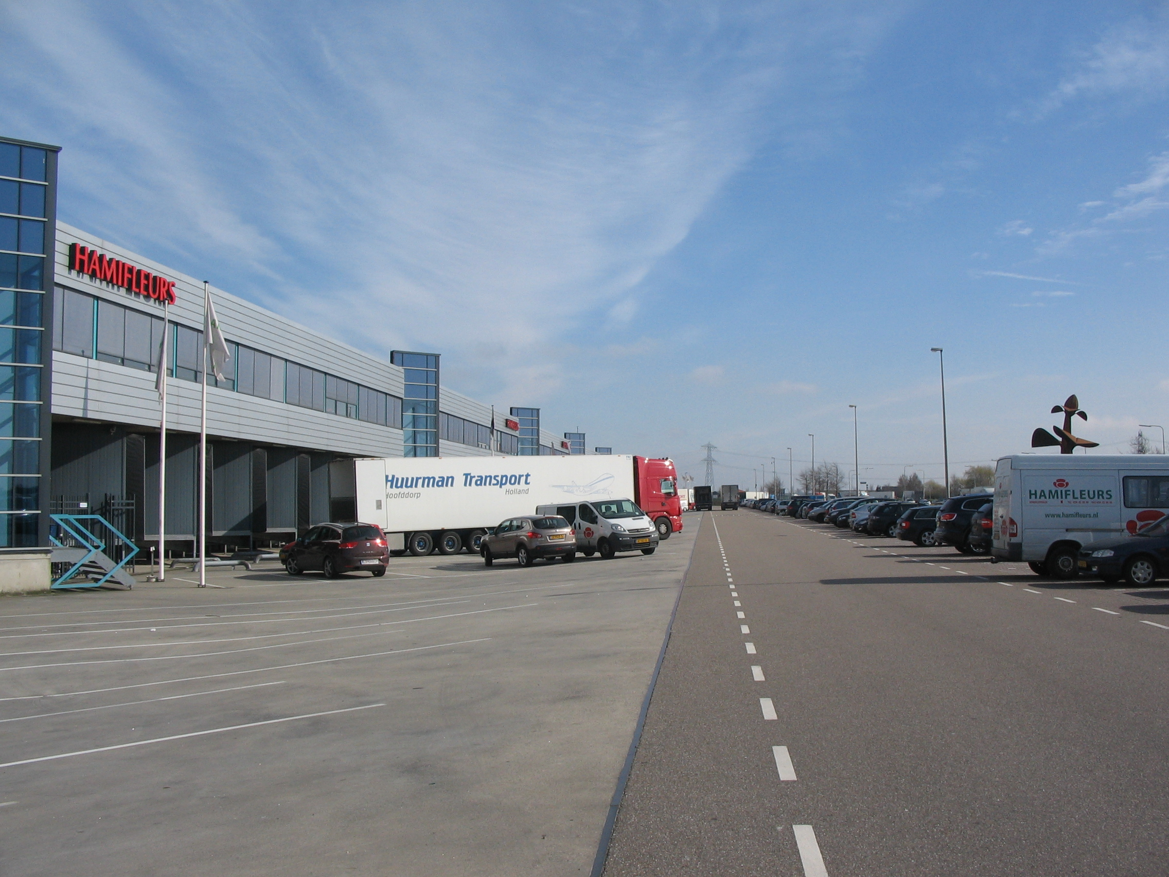 Trade Parc Westland, (Jupiter) is a company area in municipality Westland, The Netherlands.